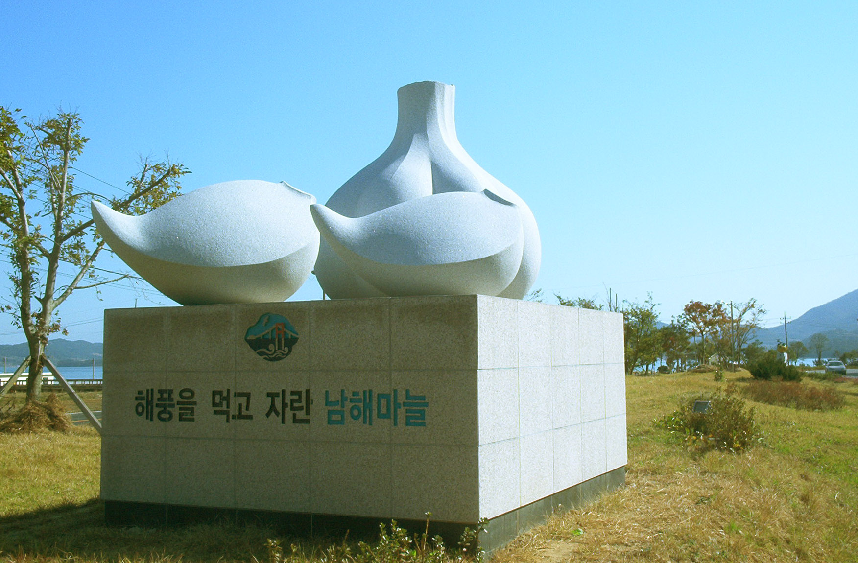 Monument in Namhae. Showing the official logo of Namhae County, South Gyeongsang province, South Korea.